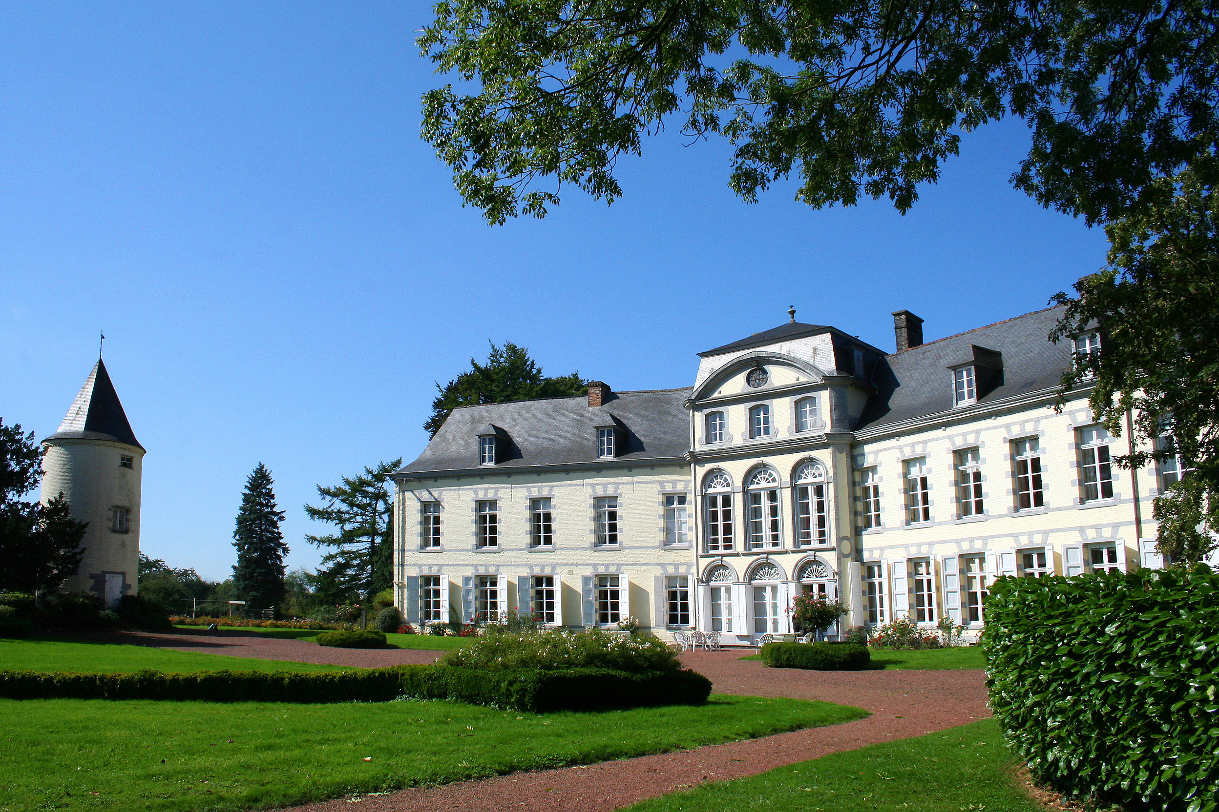 Ophain-Bois-Seigneur-Isaac, the castle of Bois-Seigneur-Isaac (1737).